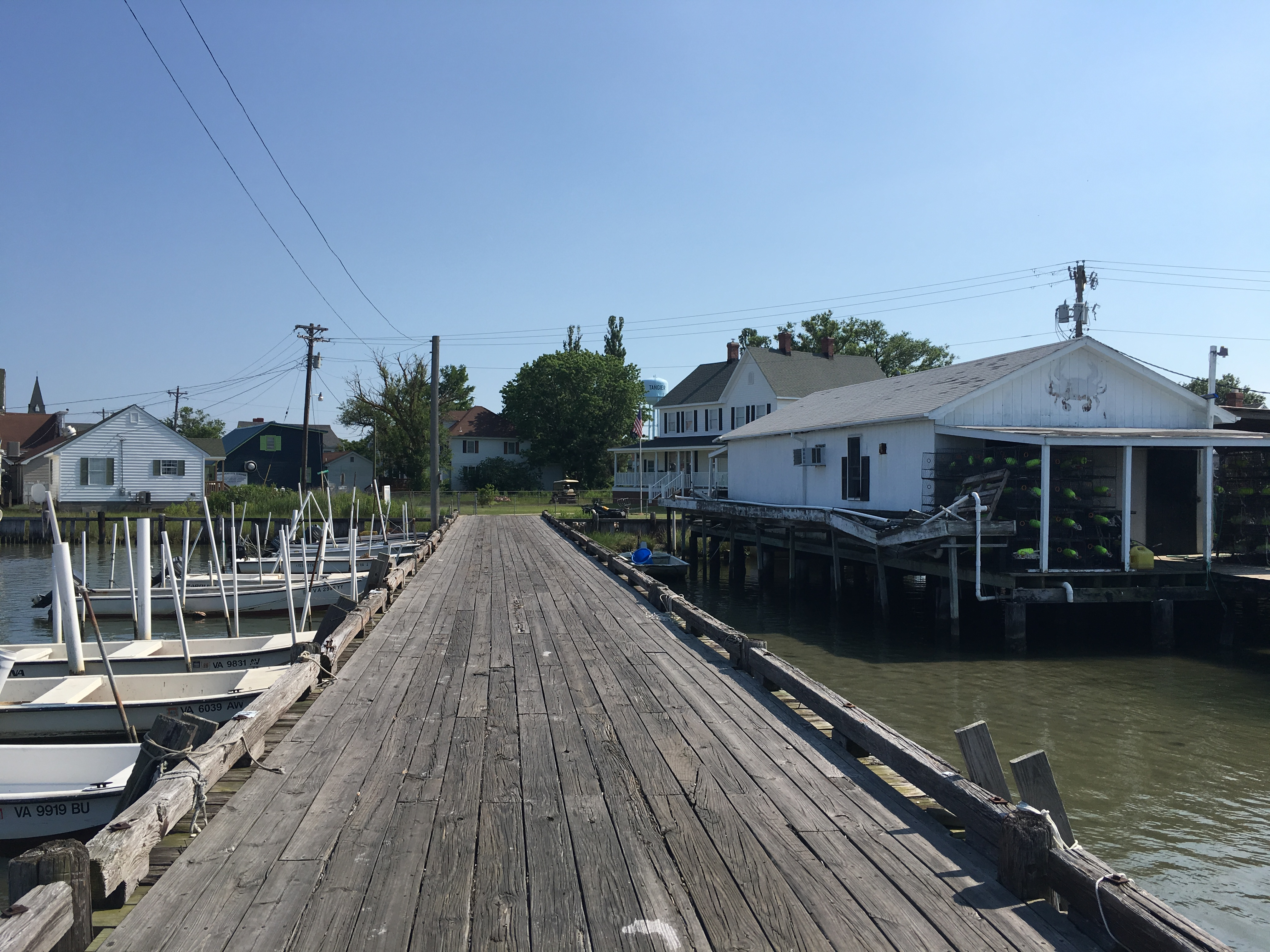 Entering the Town of Tangier, Virginia from the County Dock. June 2017.